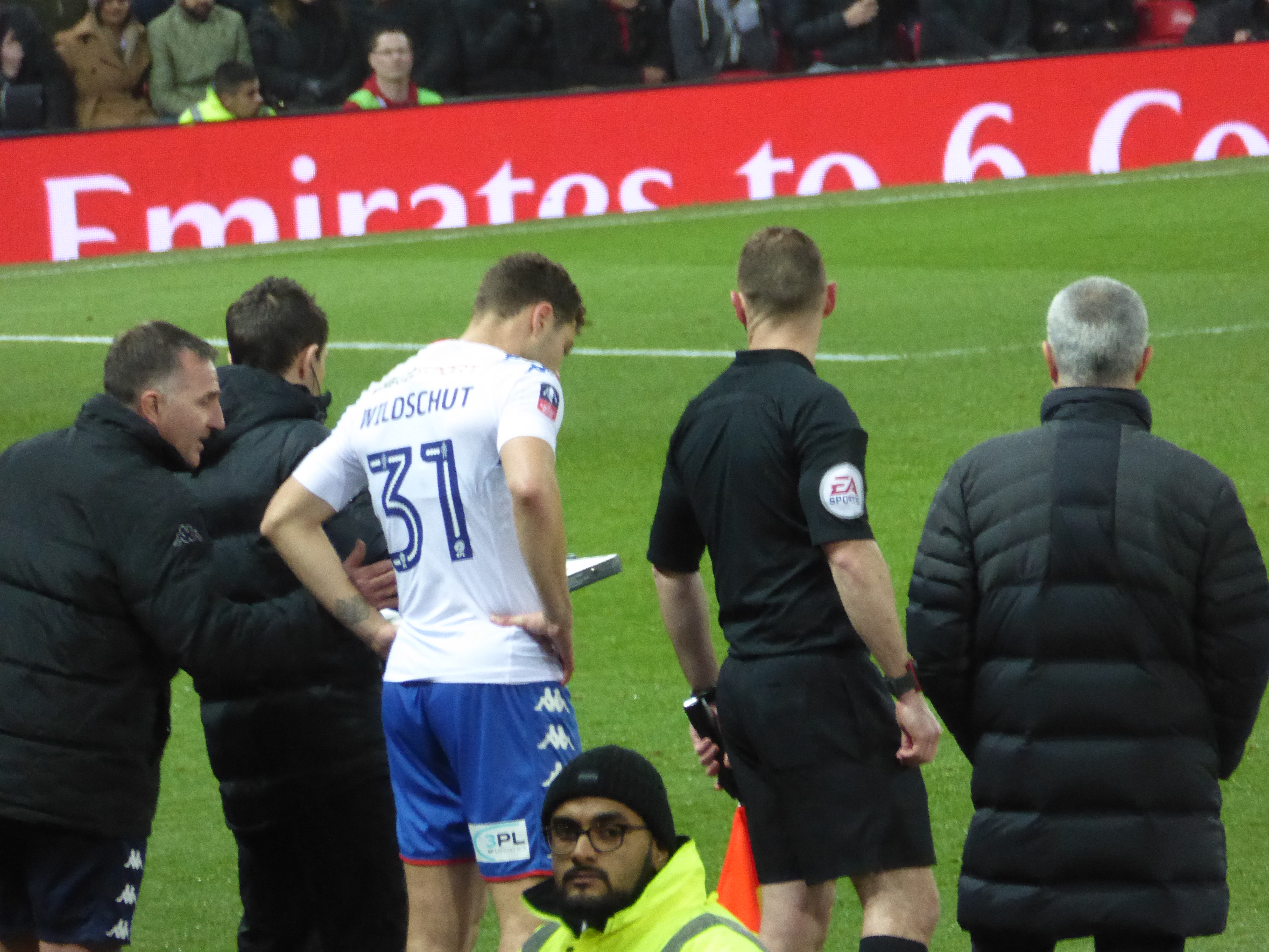 Manchester United v Wigan Athletic (4-0), FA Cup, Old Trafford, Manchester, Greater Manchester, England, 29 January 2017